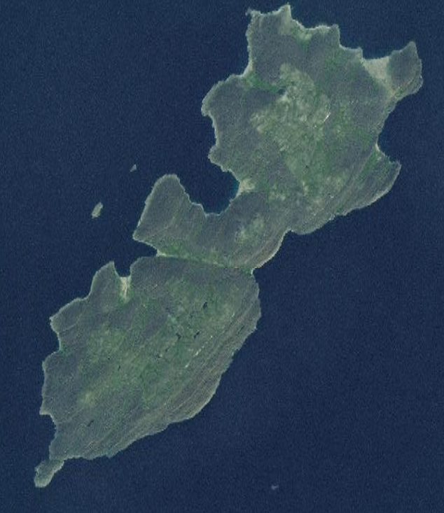 Satellite image of Perley Island.